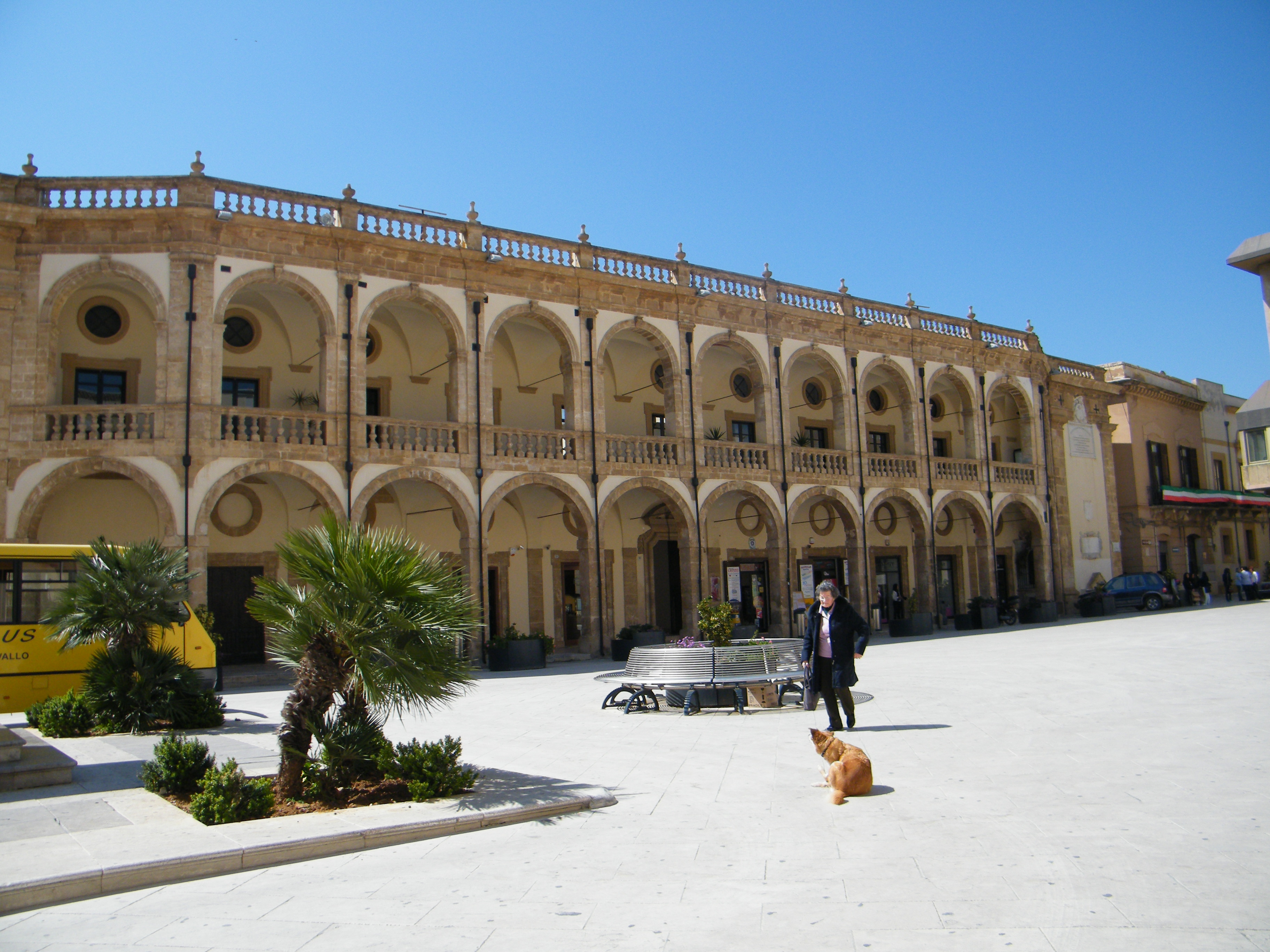 Seminario vescovile Mazara